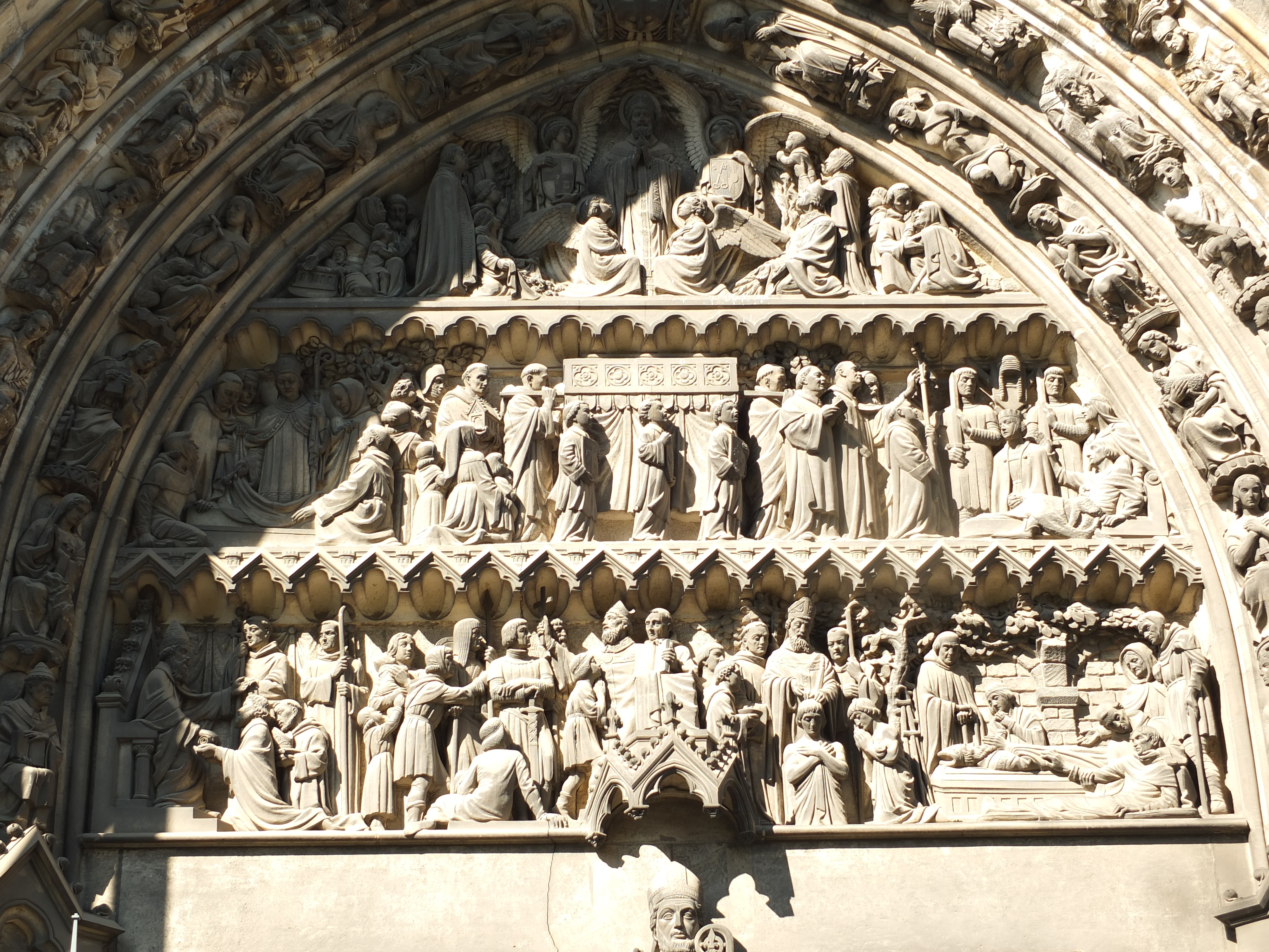 South portal of Lille Cathedral, the Basilica of Notre Dame de la Treille.